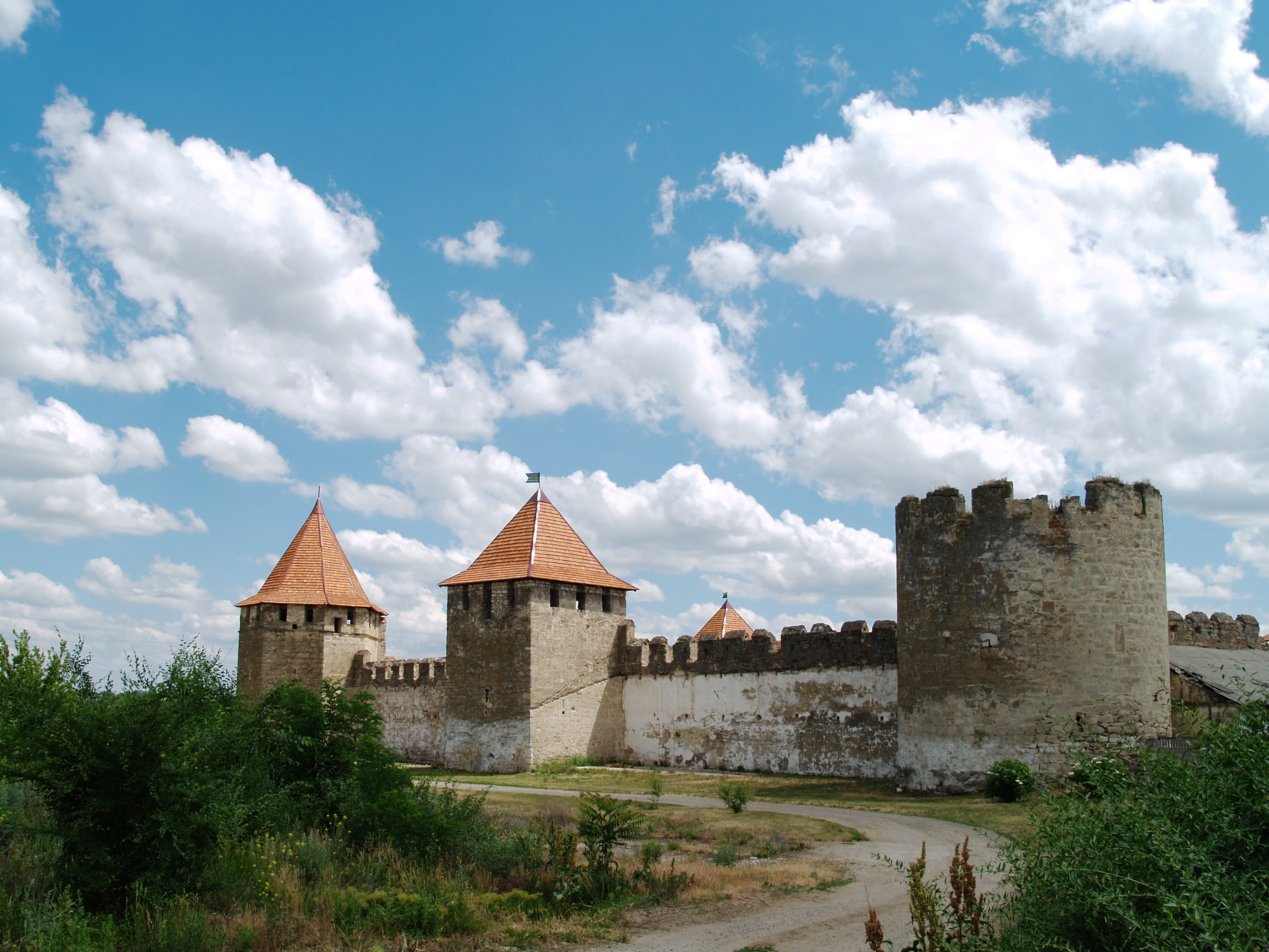 Northern side of Bender Fortress.